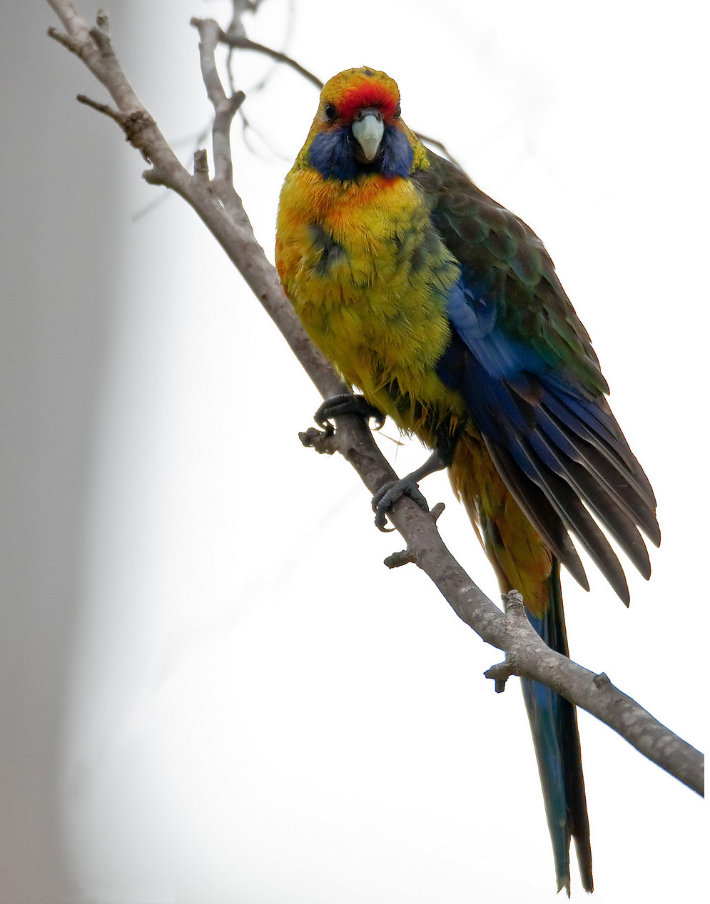 Green Rosella (also known as Tasmanian Rosella) in Tasmania, Australia.